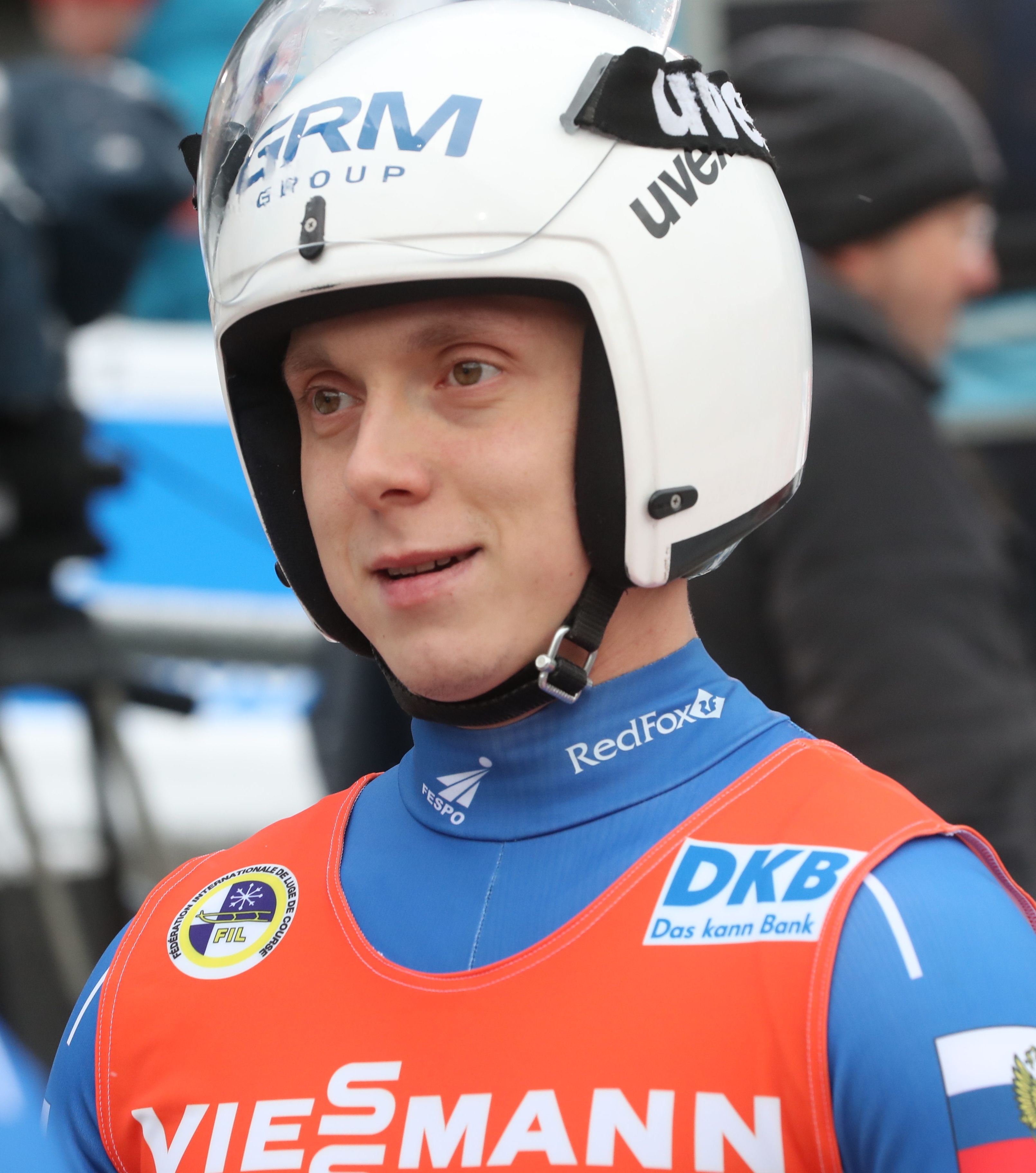 Luge World Cup Doubles in Winterberg: Andrey Medvedev